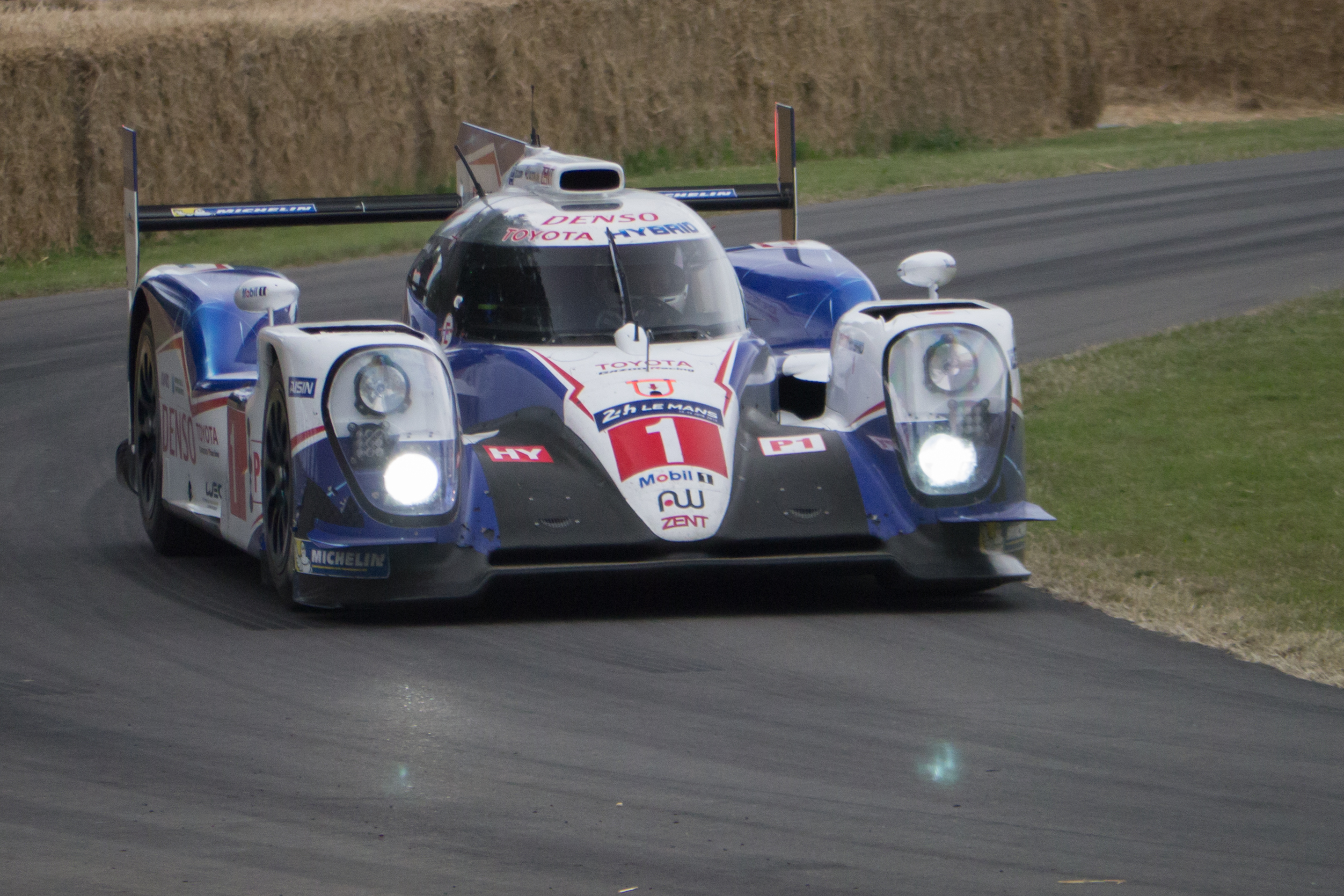 2015 Toyota TS040 Hybrid